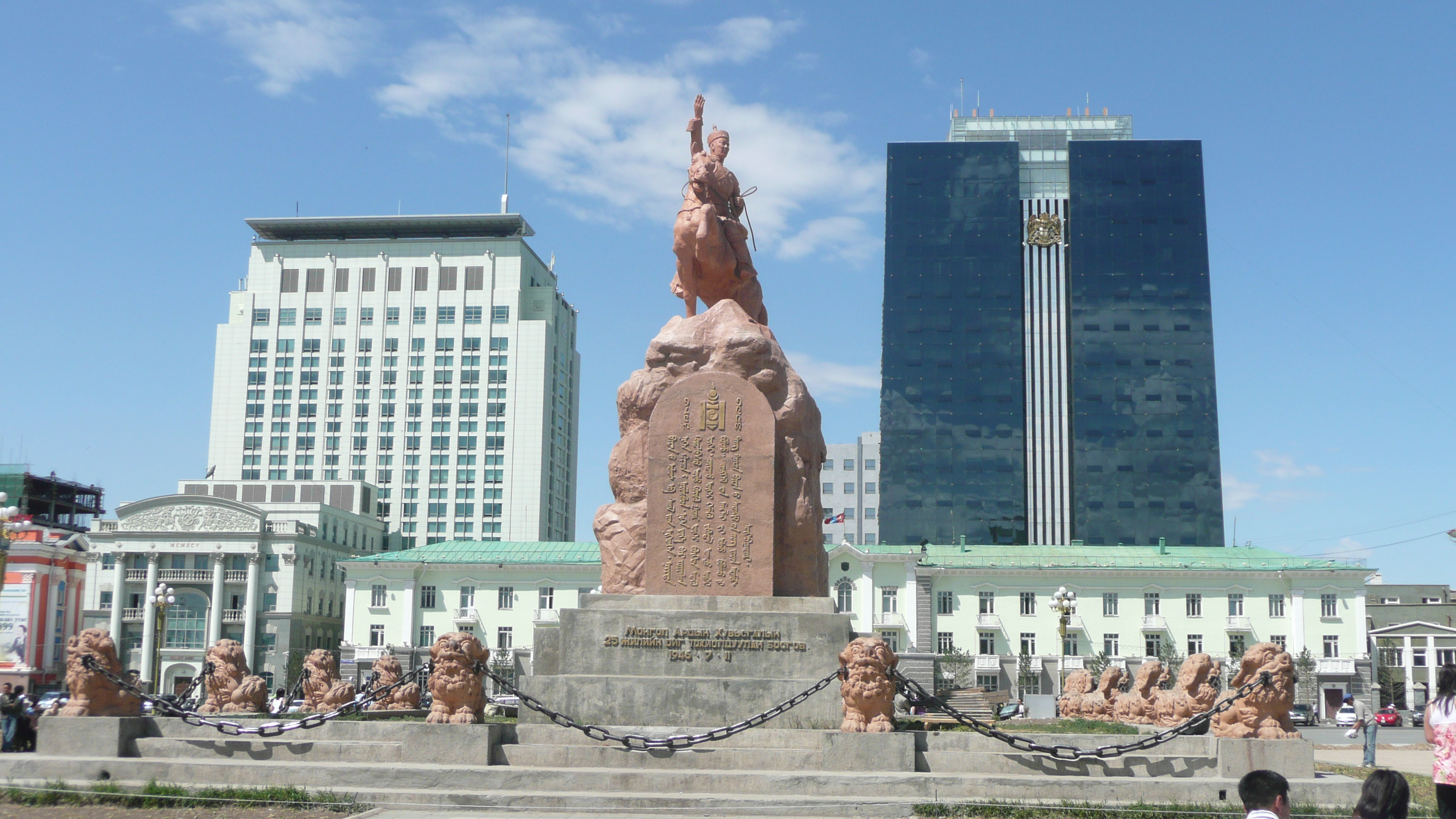 Sükhbaatar Square in Ulan Bator Монгол: Бидний улс эв саналаа нэгтгэн, нийт нэгэн хүчийг нийлүүлэн, нэгэн зэргээр зориглон хөдөлбөөс үл хүрэх газаргүй бөгөөд мэдэхгүй чадахгүй хэмээх явдал огт үгүй болж цэнгэлийн манлайг олж болохыг дан ганц бидний сэтгэлийн чин зориг мэднэ. ᠑᠘᠙᠓ ᠑᠙᠒᠓ ᠪᠢᠳᠡᠨ ᠦ ᠤᠯᠤᠰ ᠡᠪ ᠰᠠᠨᠠᠯ ᠢᠶᠠᠨ ᠨᠢᠭᠡᠳᠬᠡᠨ᠂ ᠨᠡᠶᠢᠲᠡ ᠨᠢᠭᠡᠨ ᠬᠦᠴᠦᠨ ᠢ ᠨᠡᠶᠢᠯᠡᠭᠦᠯᠦᠨ᠂ ᠨᠢᠭᠡᠨ ᠵᠡᠷᠭᠡ ᠵᠡᠷᠭᠡ ᠪᠡᠷ ᠵᠣᠷᠢᠭᠯᠠᠨ ᠬᠥᠳᠡᠯᠪᠡᠰᠦ ᠦᠯᠦ ᠬᠦᠷᠬᠦ ᠭᠠᠵᠠᠷ ᠦᠭᠡᠢ ᠪᠥᠭᠡᠳ ᠮᠡᠳᠡᠬᠦ ᠦᠭᠡᠢ ᠴᠢᠳᠠᠬᠤ ᠦᠭᠡᠢ ᠬᠡᠮᠡᠬᠦ ᠶᠠᠪᠤᠳᠠᠯ ᠣᠭᠲᠤ ᠦᠭᠡᠢ ᠪᠣᠯᠵᠤ ᠴᠡᠩᠭᠡᠯ ᠦᠨ ᠮᠠᠩᠯᠠᠢ ᠶᠢ ᠣᠯᠵᠤ ᠪᠣᠯᠬᠤ ᠶᠢ ᠳᠠᠩ ᠭᠠᠭᠴᠠ ᠪᠢᠳᠡᠨ ᠦ ᠰᠡᠳᠬᠢᠯ ᠦᠨ ᠴᠢᠩ ᠵᠣᠷᠢᠭ ᠮᠡᠳᠡᠮᠦᠢ᠃ ᠰᠦᠬᠡᠪᠠᠭᠠᠲᠤᠷ᠂